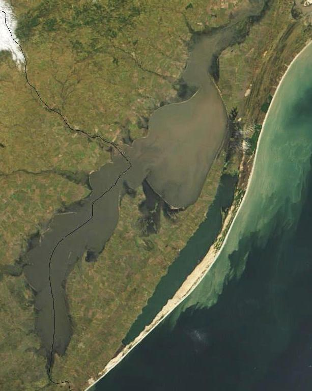 Lagoa dos Patos is the largest lagoon in Brazil, in the state of Rio Grande do Sul.